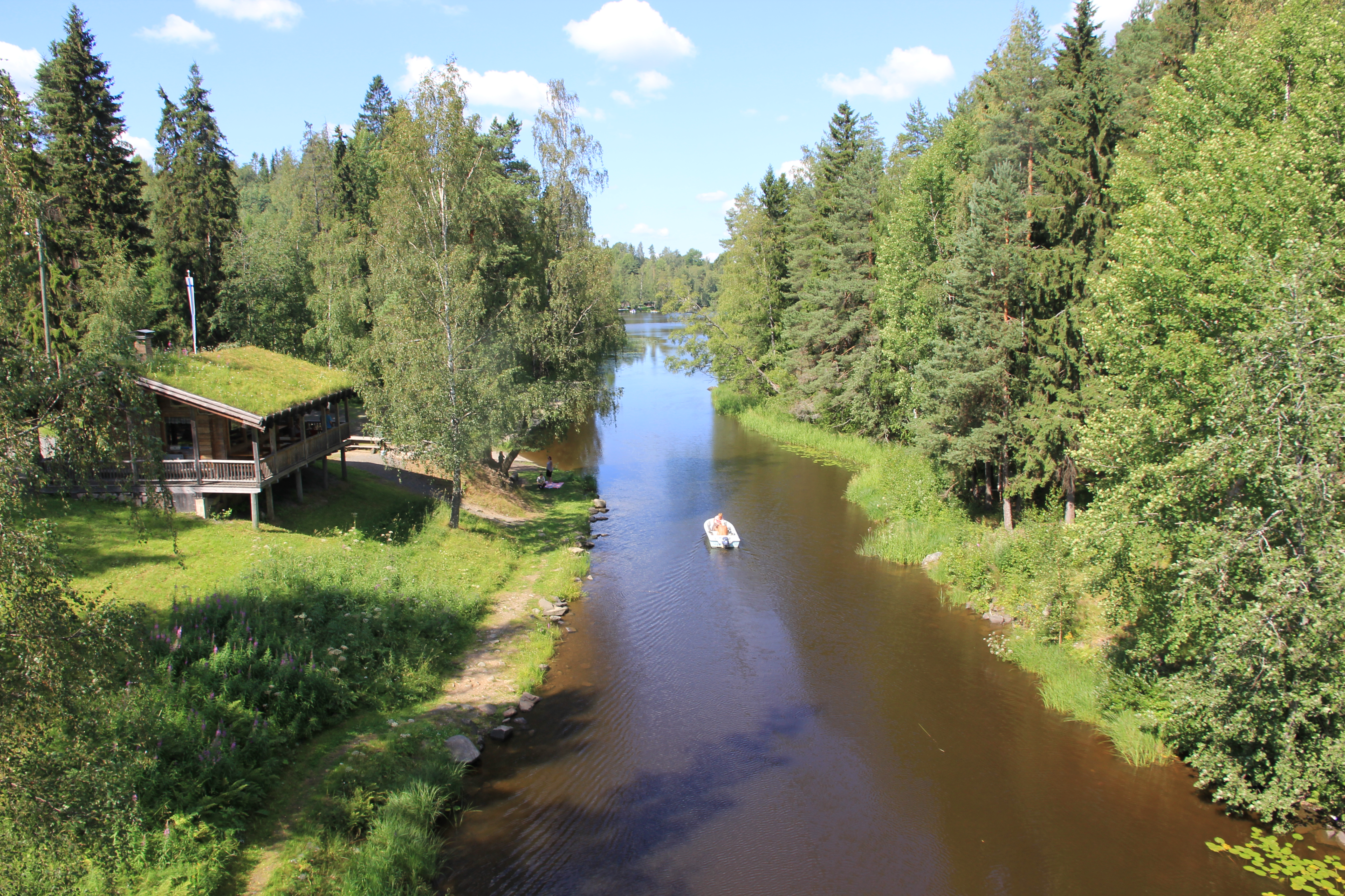 Otamusjoki river in Sastamala. Photographed from the bridge towards Tupurlanjärvi lake. Cafe Otamus on the left.